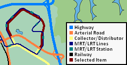 Yishun Ring Road Version 1